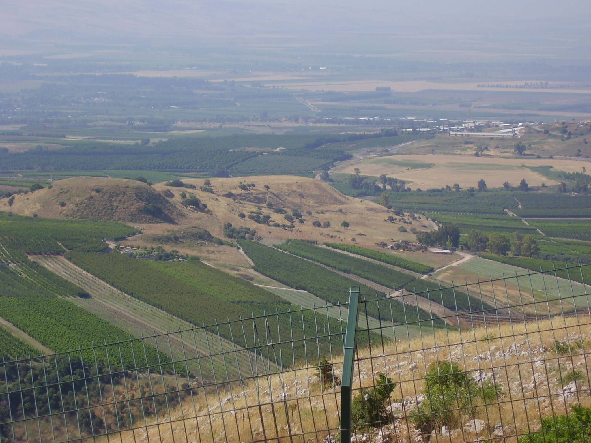 Tel Abel Beth Maacah, view from Dado Observation Point.